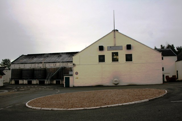 White Horse Glen Elgin Contributing in main to White Horse blend Glen Elgin also produces a 12year old malt whisky.It is discreetly tucked away by Fogwatt.